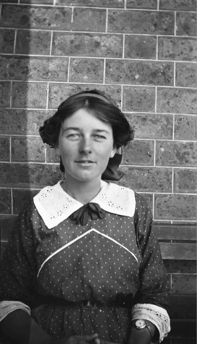 A head and shoulder portrait of Doris Mckellar (nee Hall) in front of a brick wall